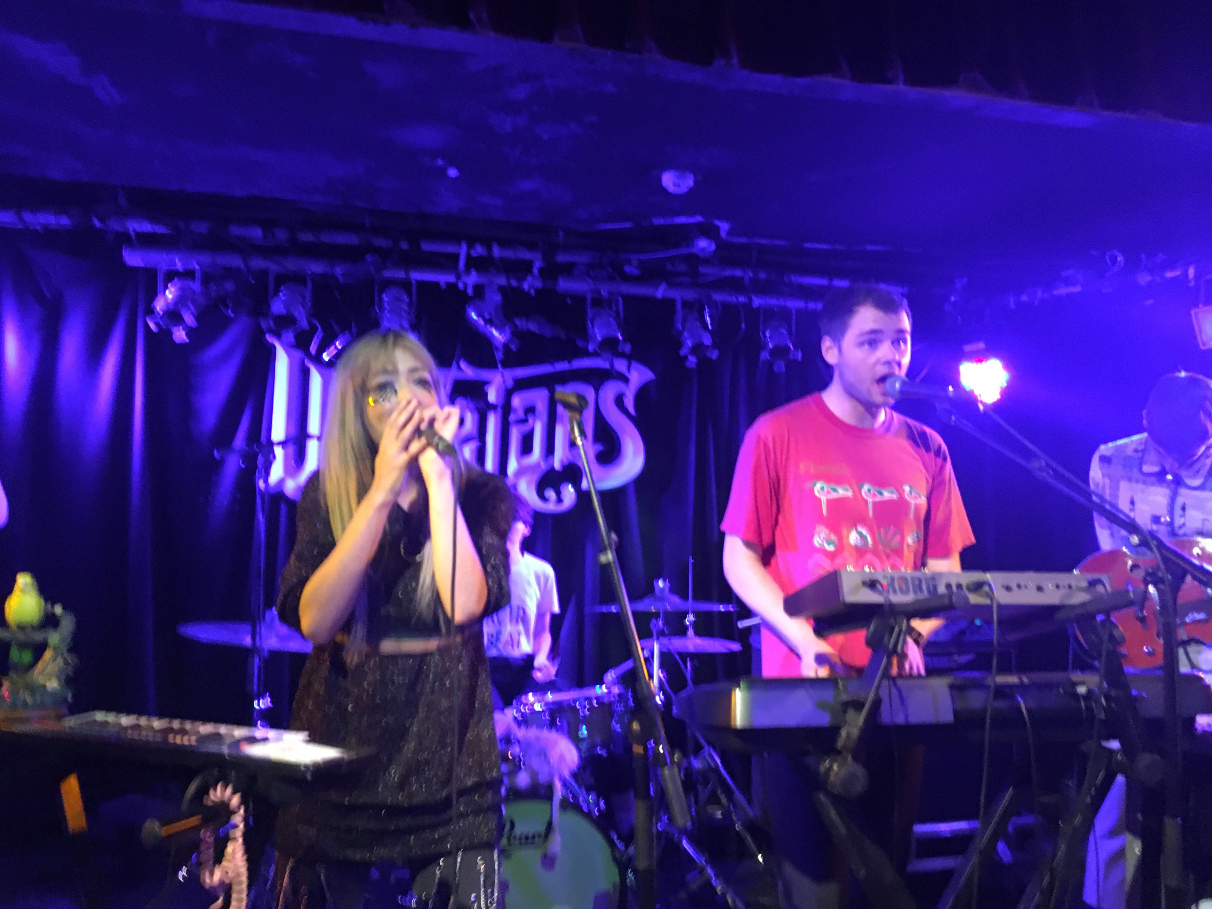 KKB Dublin